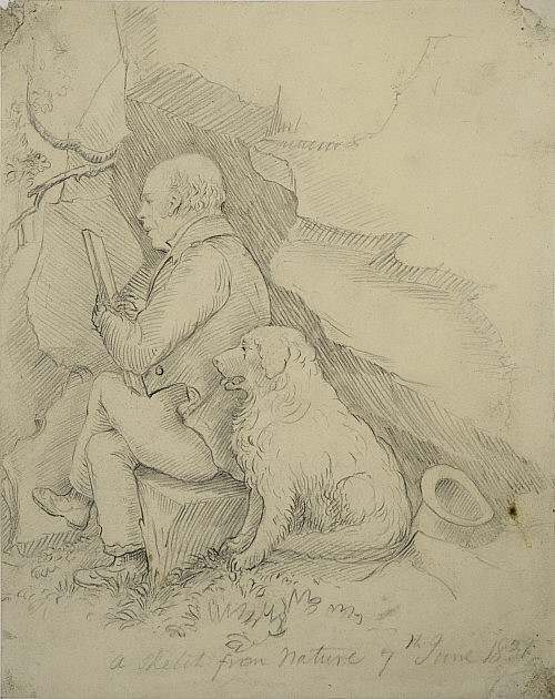 Photograph of Rev. John Thomson of Duddingston, 1778 - 1840. Landscape painter, 1831. Pencil on paper, by Sir Thomas Dick Lauder. In the public domain. Source [1]